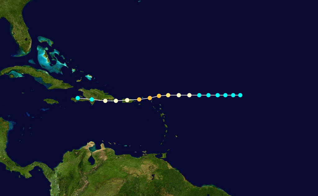 1867 Atlantic hurricane 9 track.png track. Uses the color scheme from the Saffir-Simpson Hurricane Scale.